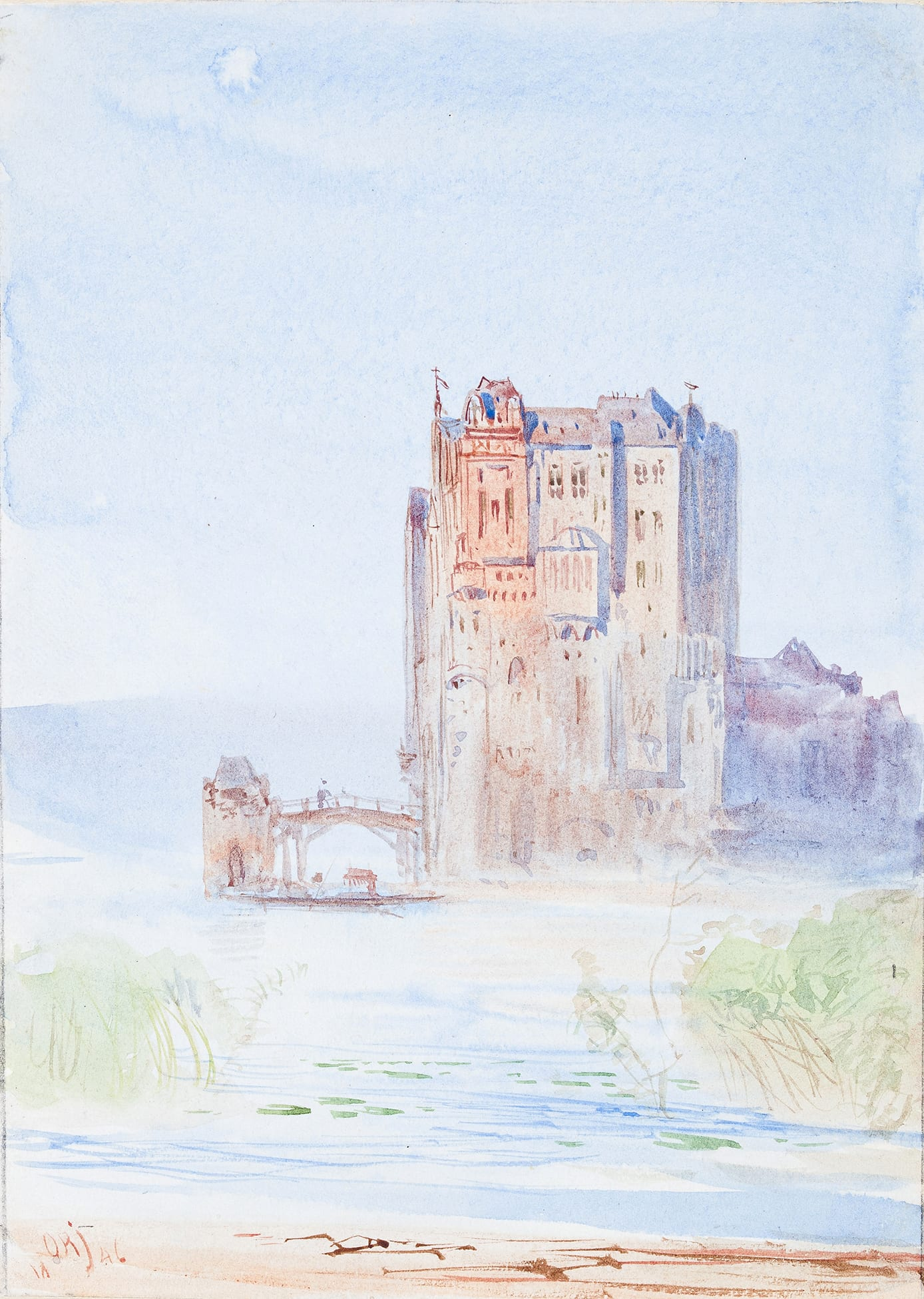 Offered for sale by Abbott and Holder in December 2019, when it was described as "JACOBI Otto Reinhard [sic: Reinhold P.R.C.A. (1812 Konigsberg-1901 Canada) Castle by a lake. Capriccio. Ink and watercolour. Signed and dated, 1846. 7x3.5 inches."